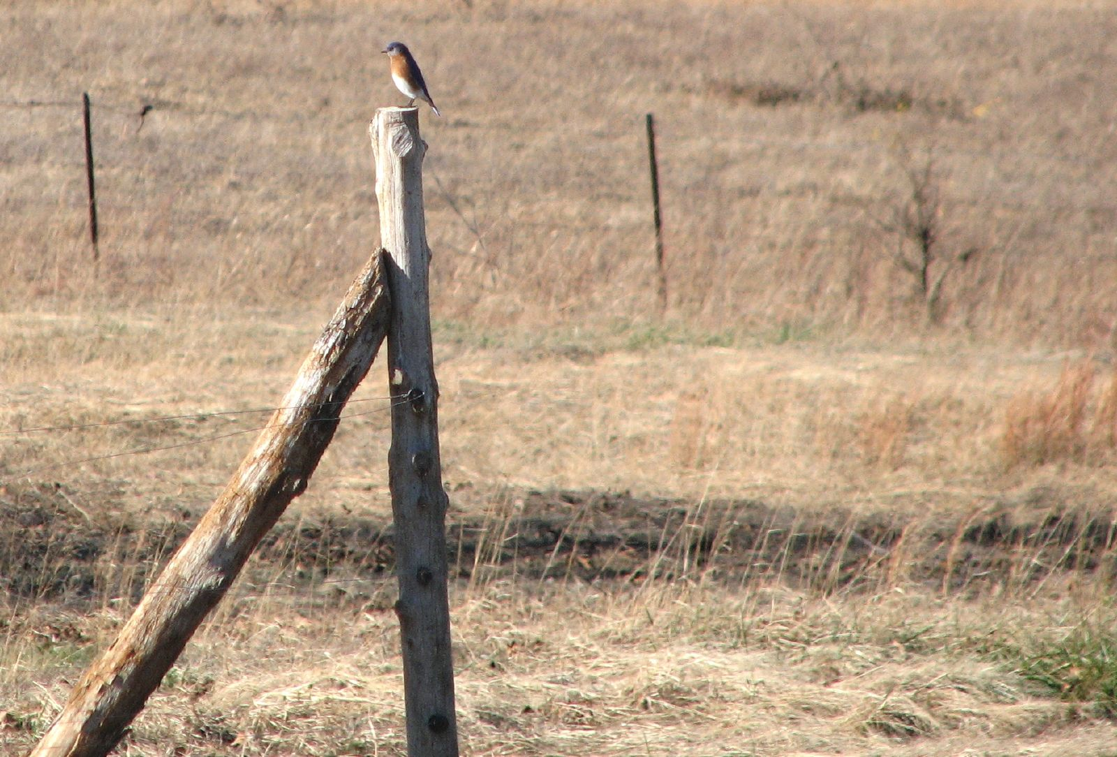 This Eastern Bluebird posed for me on a fence post just long enough to get a nice shot. I took this a few miles SE of Stigler, OK